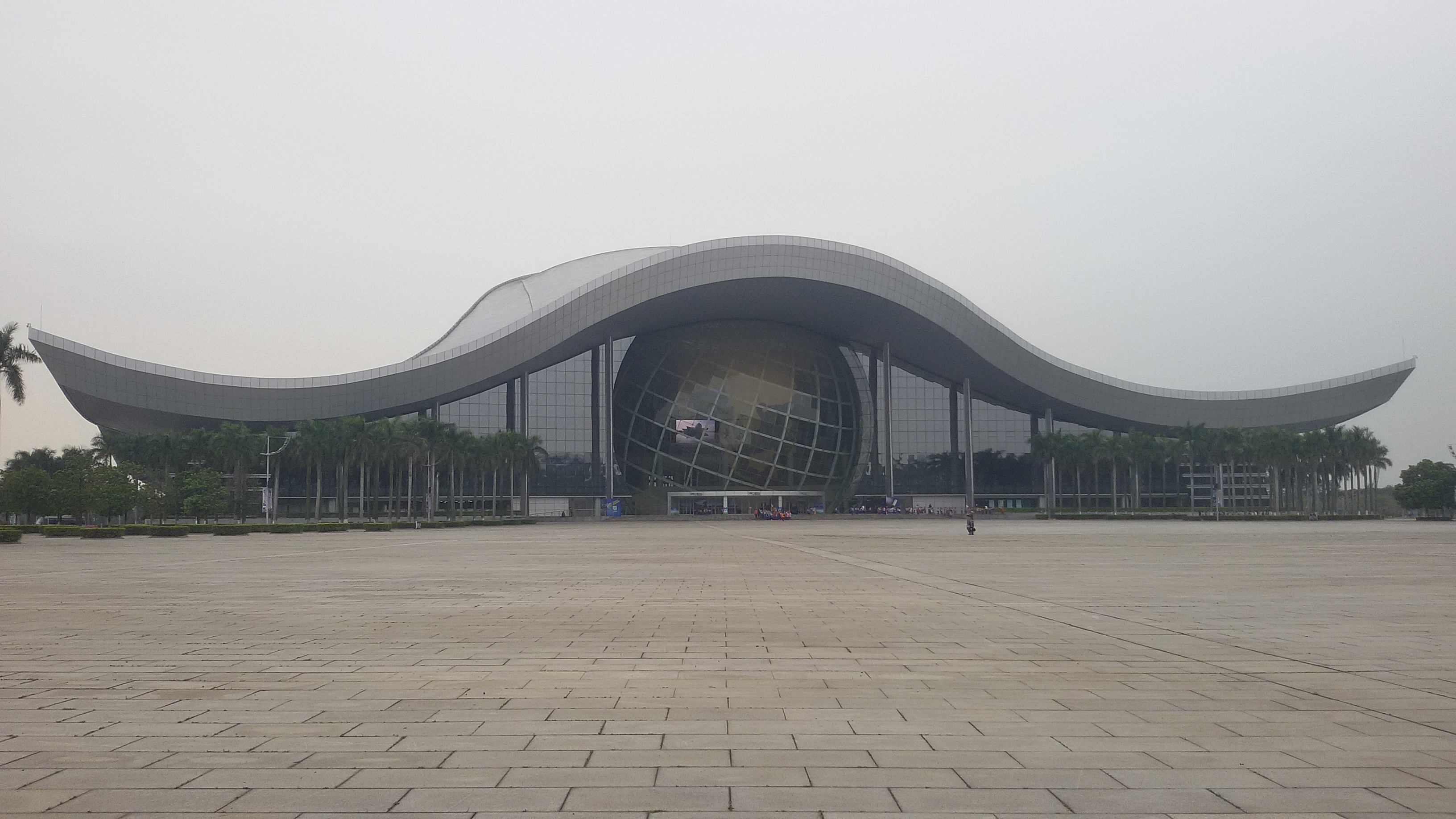 Guangdong Science Center (FRONT)